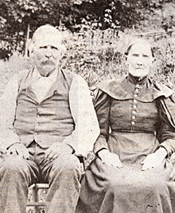 Photo of John and Orlena (or Orleana) Puckett